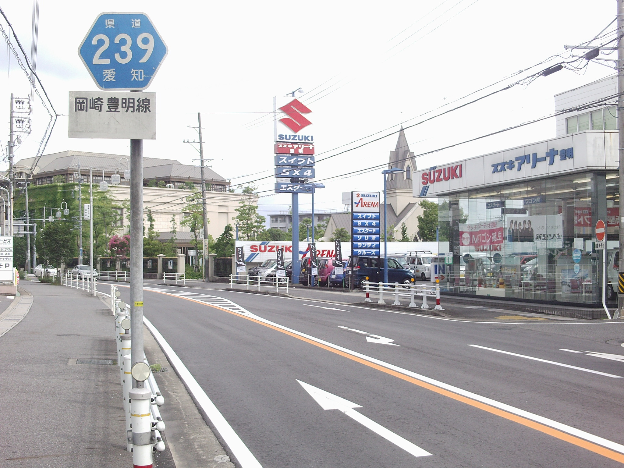 Aichi prefectural road No.239 in Shindencho, Toyoake, Aichi.